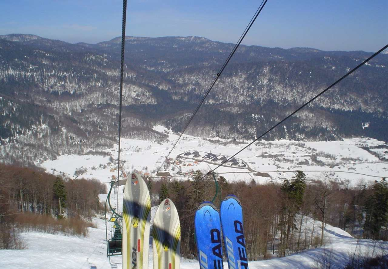 Bjelolasica, 1392 m,Ski resort .View from Vrelo